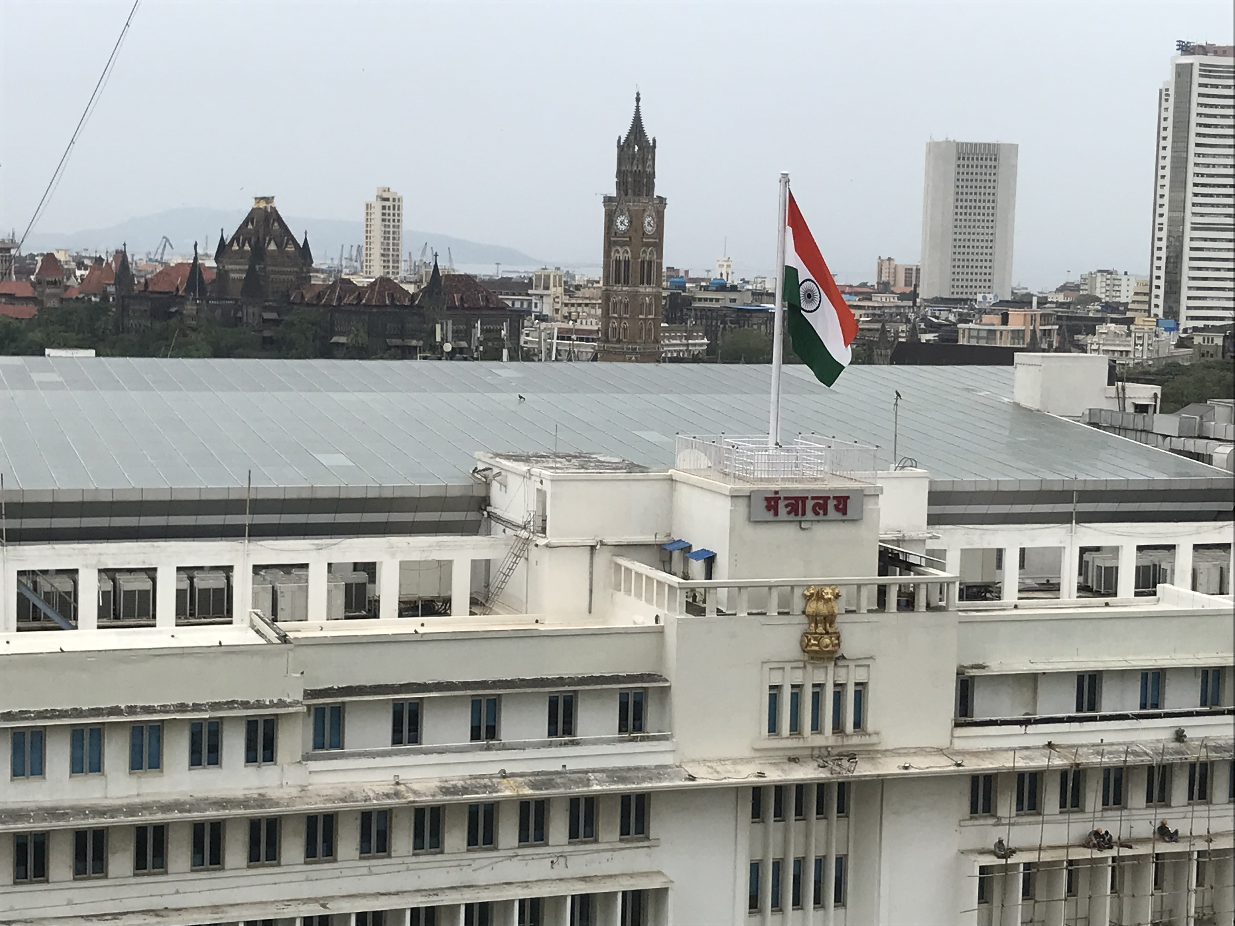 Mantralaya is the administrative headquarters of the state government of Maharashtra in South Mumbai, built in 1955. Mantralaya is a seven storeyed building which houses most of the departments of the state government of Maharashtra in this building. The Chief Minister and Deputy Chief Minister sit on the sixth floor. The Chief Secretary, sits on the fifth floor.